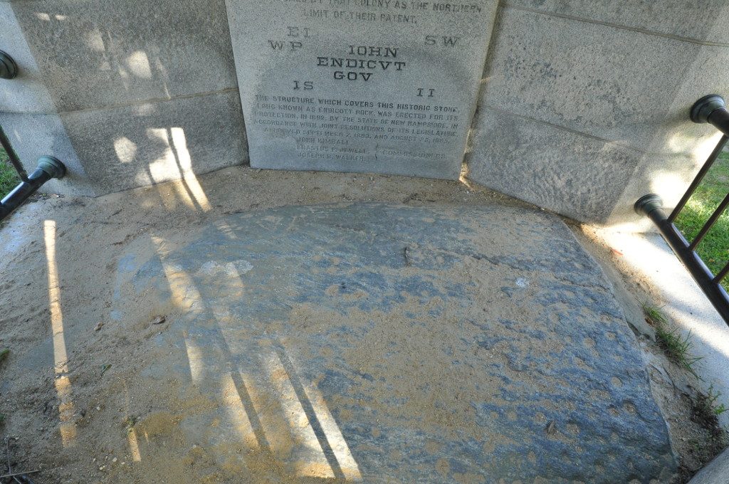 Endicott Rock State Park, Weirs Beach (Laconia), New Hampshire. This rock was inscribed by surveyors for the Massachusetts Bay Colony in 1652.